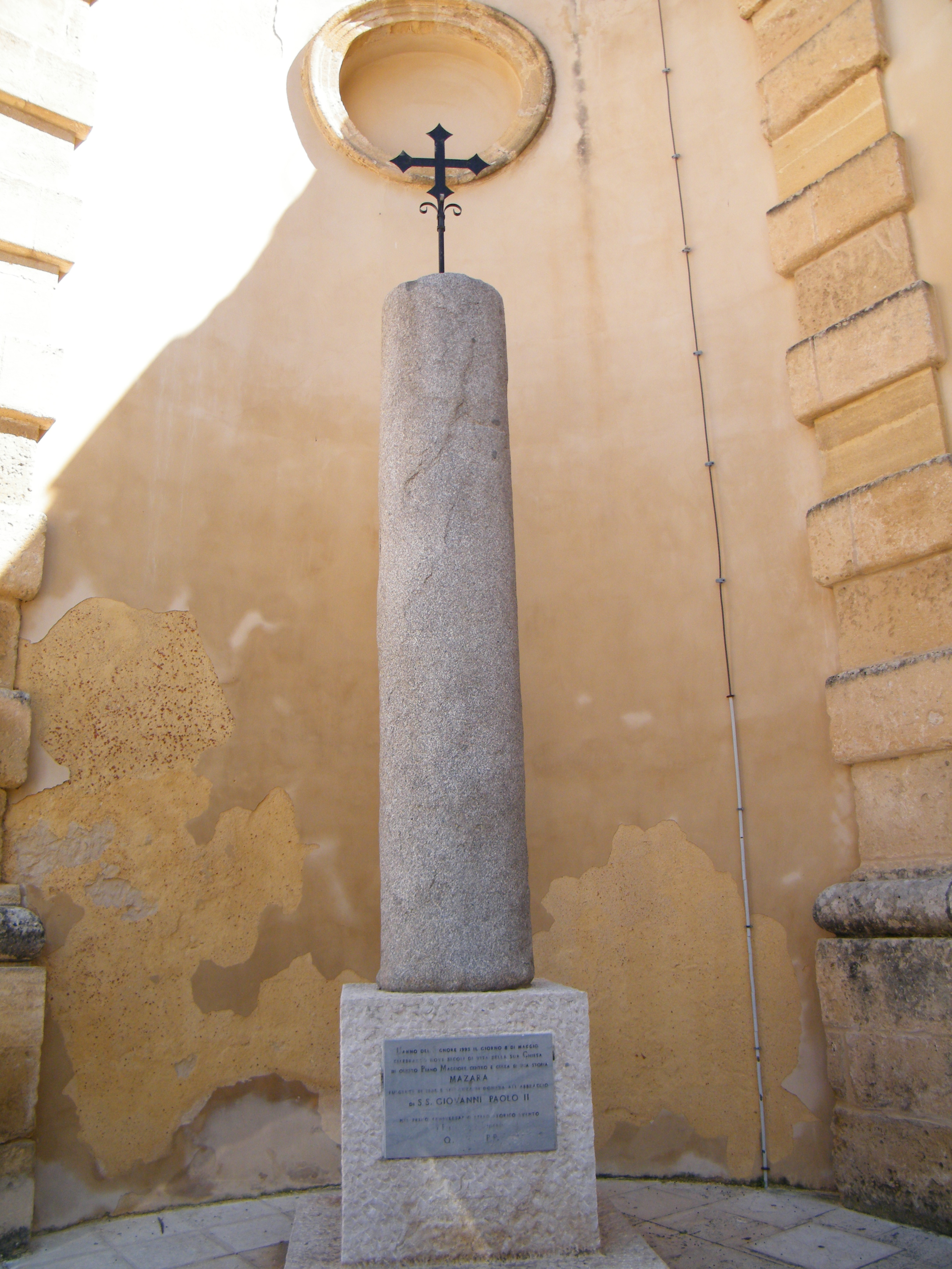 Column of the ancient Norman Cathedral - Mazara